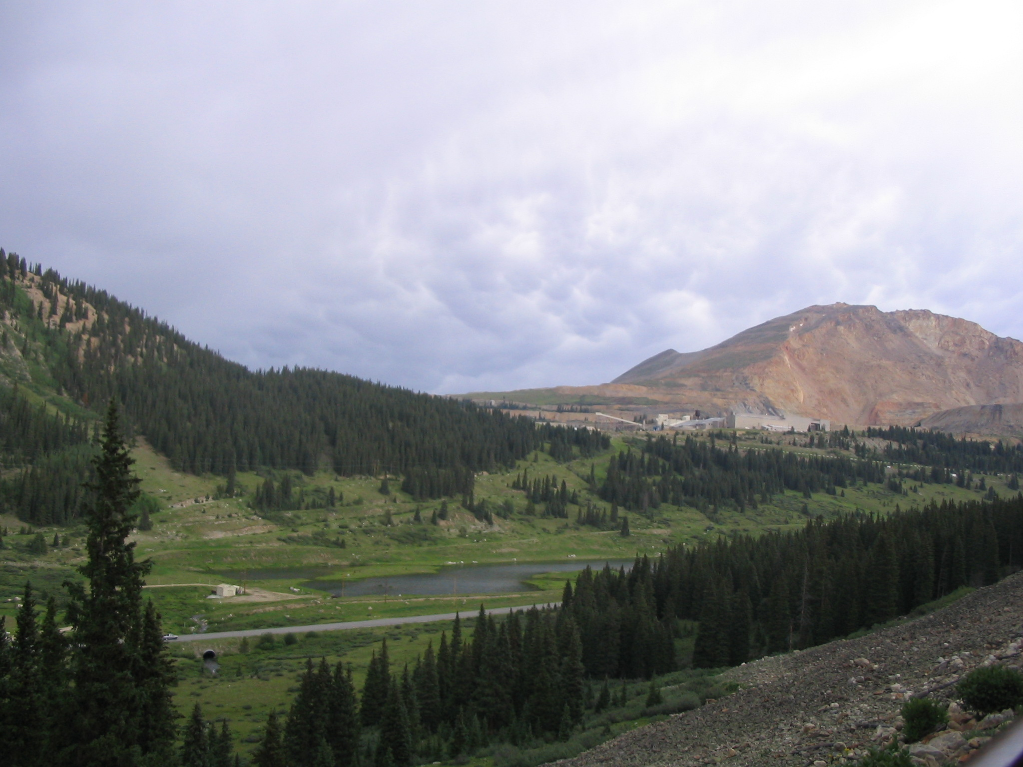 Picture of Fremont Pass, Colorado (Picture taken from the Lake County side of the pass)